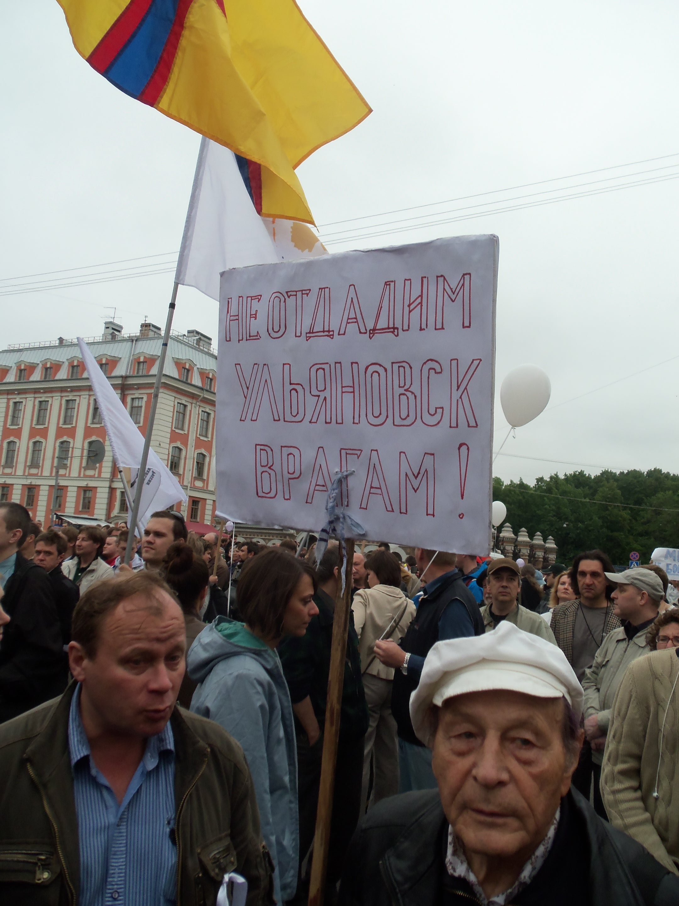 The meeting at Konyushennaya Sqaure on 12 June 2012